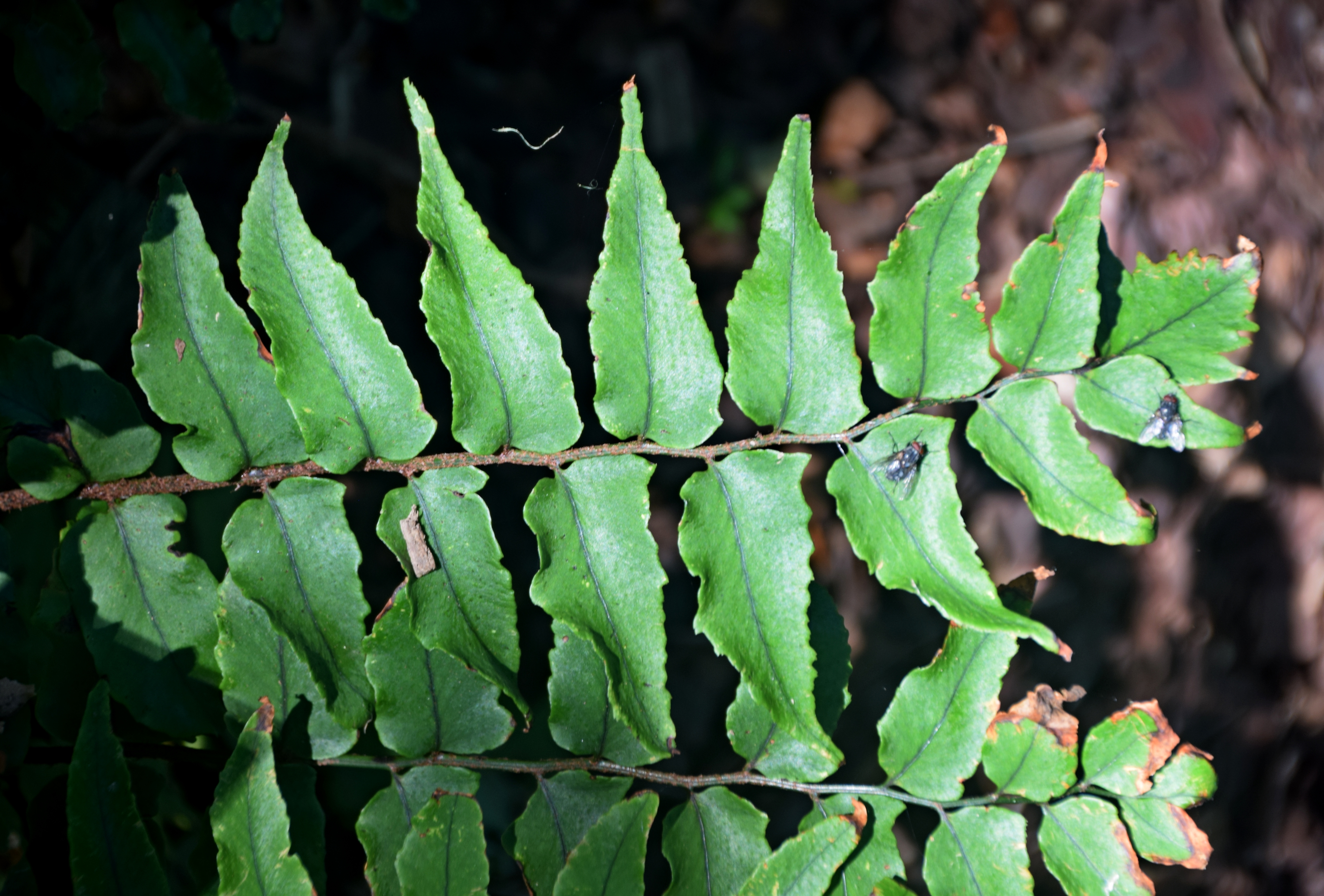 Cyrtomium yamamotoi var. intermedium in Jardin botanique de la Charme, Clermont-Ferrand, France